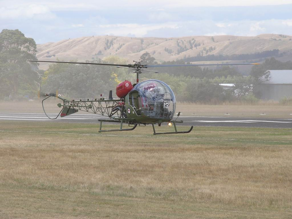 RNZAF Sioux at Wings Over Wairarapa airshow - Masterton 18 Jan 2009